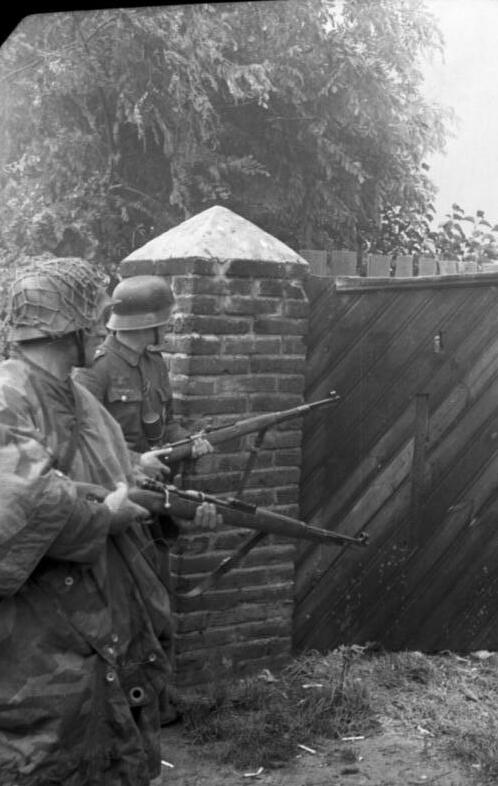 Warsaw Uprising